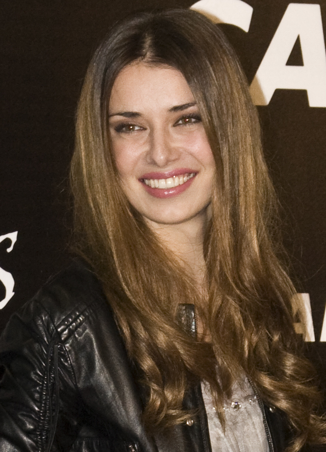 Natasha Yarovenko Spanish actress at the photocall of Alice in Wonderland in 2010.